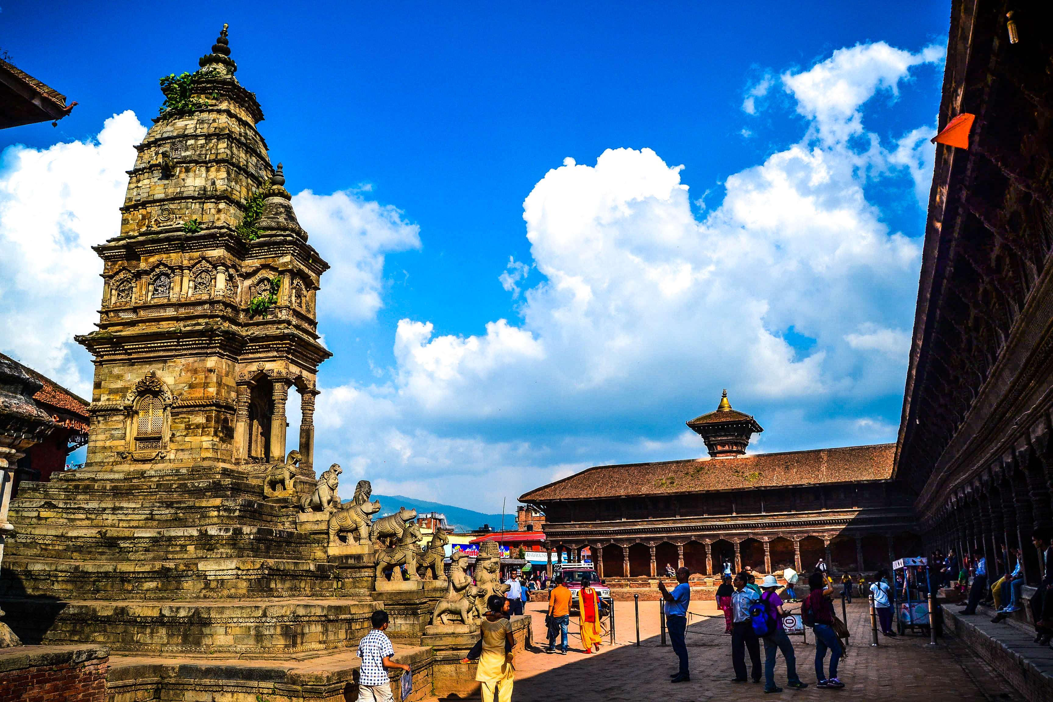 Durbar Area